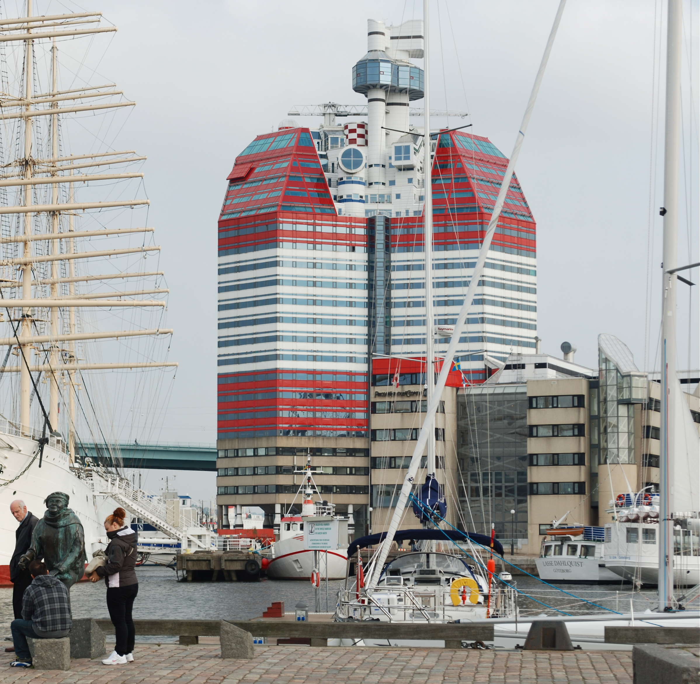 Skanskaskrapan, september 2010.